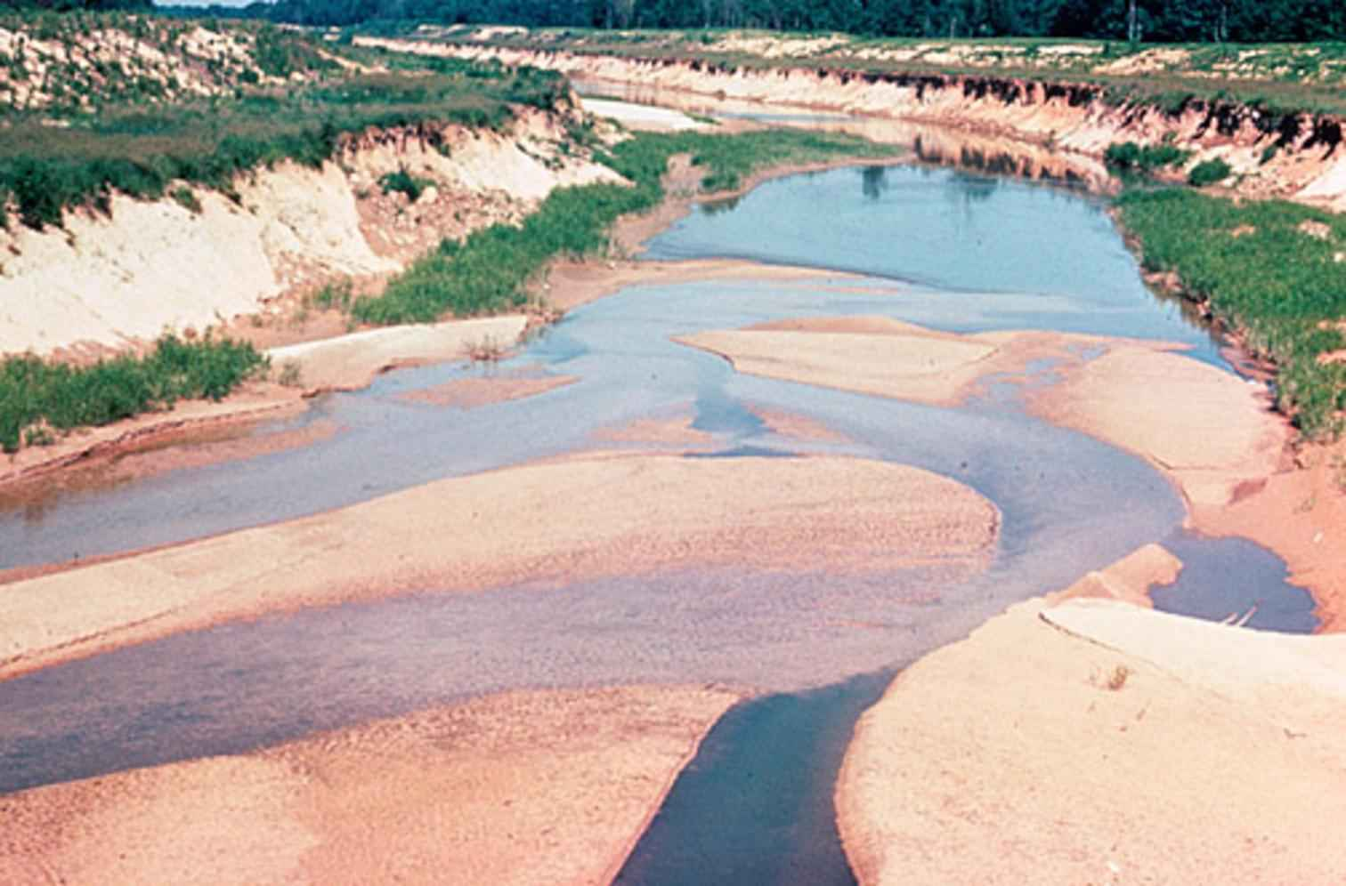 Image title: Sediments in river Image from Public domain images website